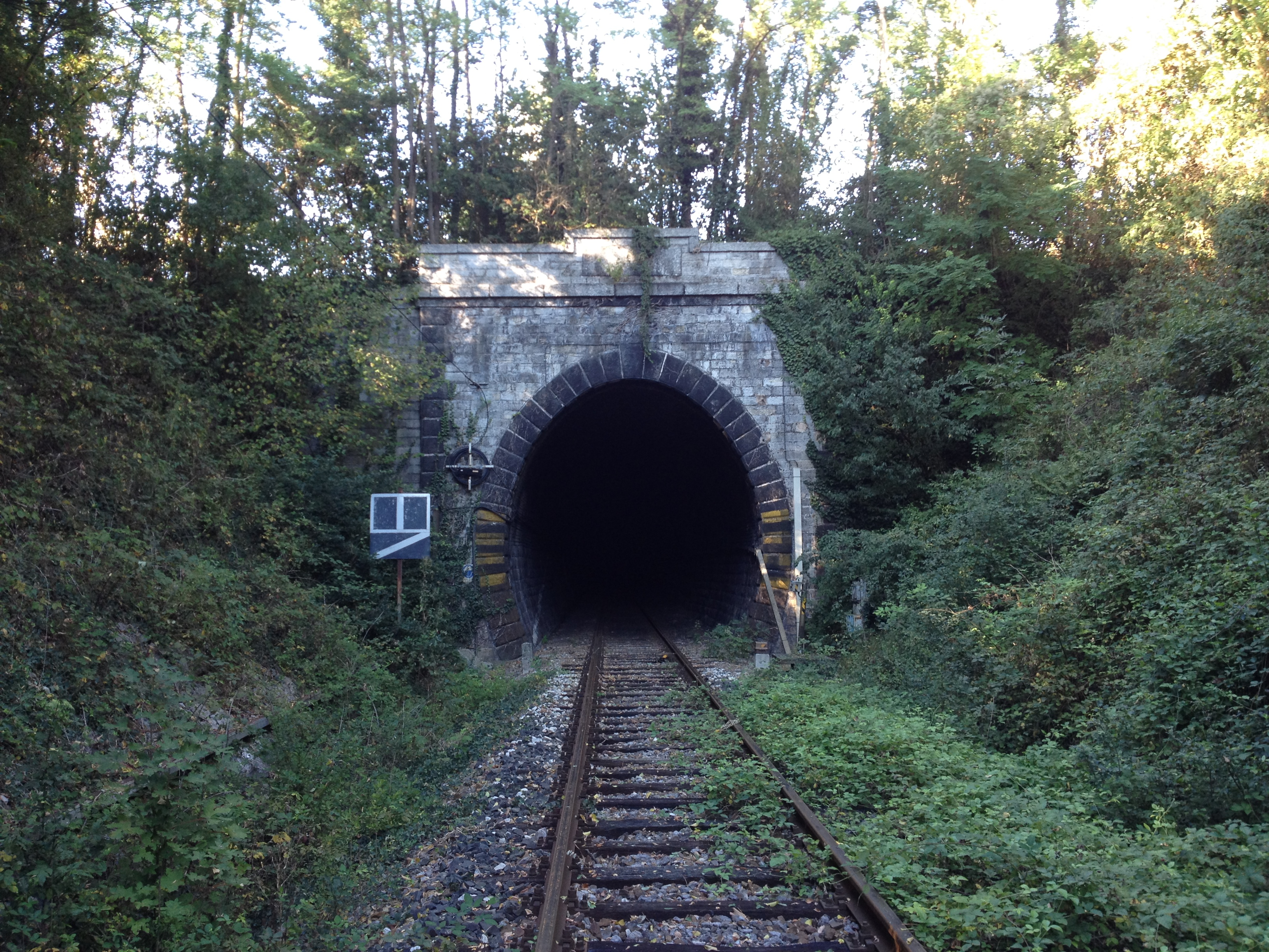 The rail tunnel under Alzate, entry in the direction of Lecco.